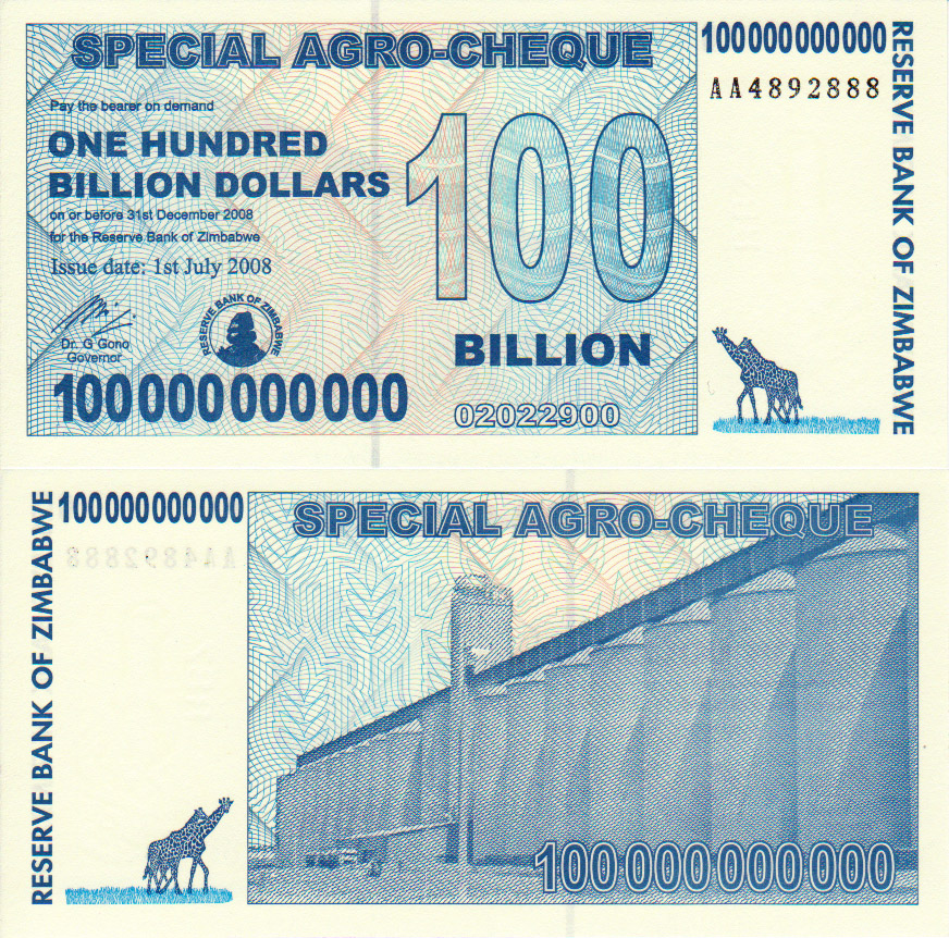 Zimbabwe 100,000,000,000 Dollars Bill 2008